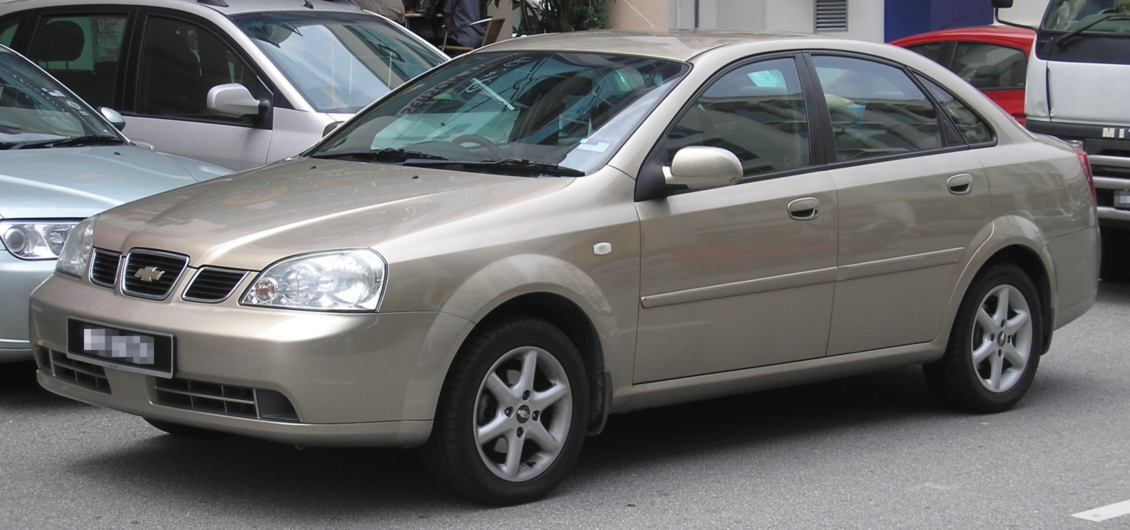 Front-side shot of a first generation Chevrolet Optra (localised variant), in Serdang, Selangor, Malaysia.